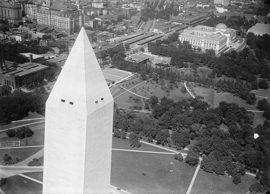 NATIONAL MUSEUM, NEW. AIRVIEW. AT REAR.